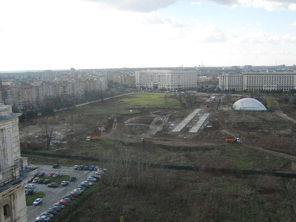 People's Salvation Cathedral (Beginning 10.12.2010)